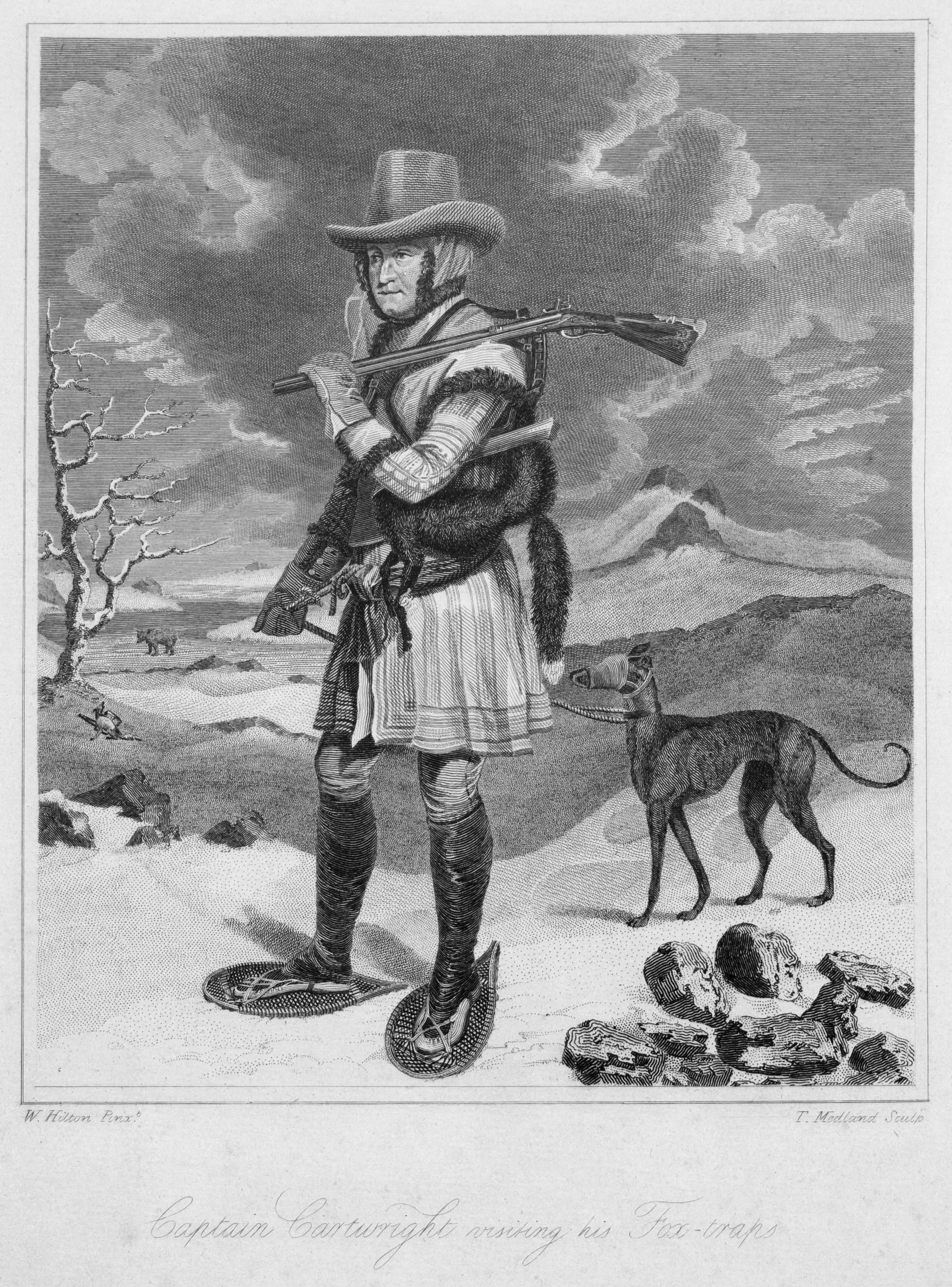 George Cartwright (trader) visiting his Fox-traps. A journal of transactions and events, during a residence of nearly sixteen years on the coast of Labrador. Vol. 1. Newark and London, England: Allin and Ridge, 1792.